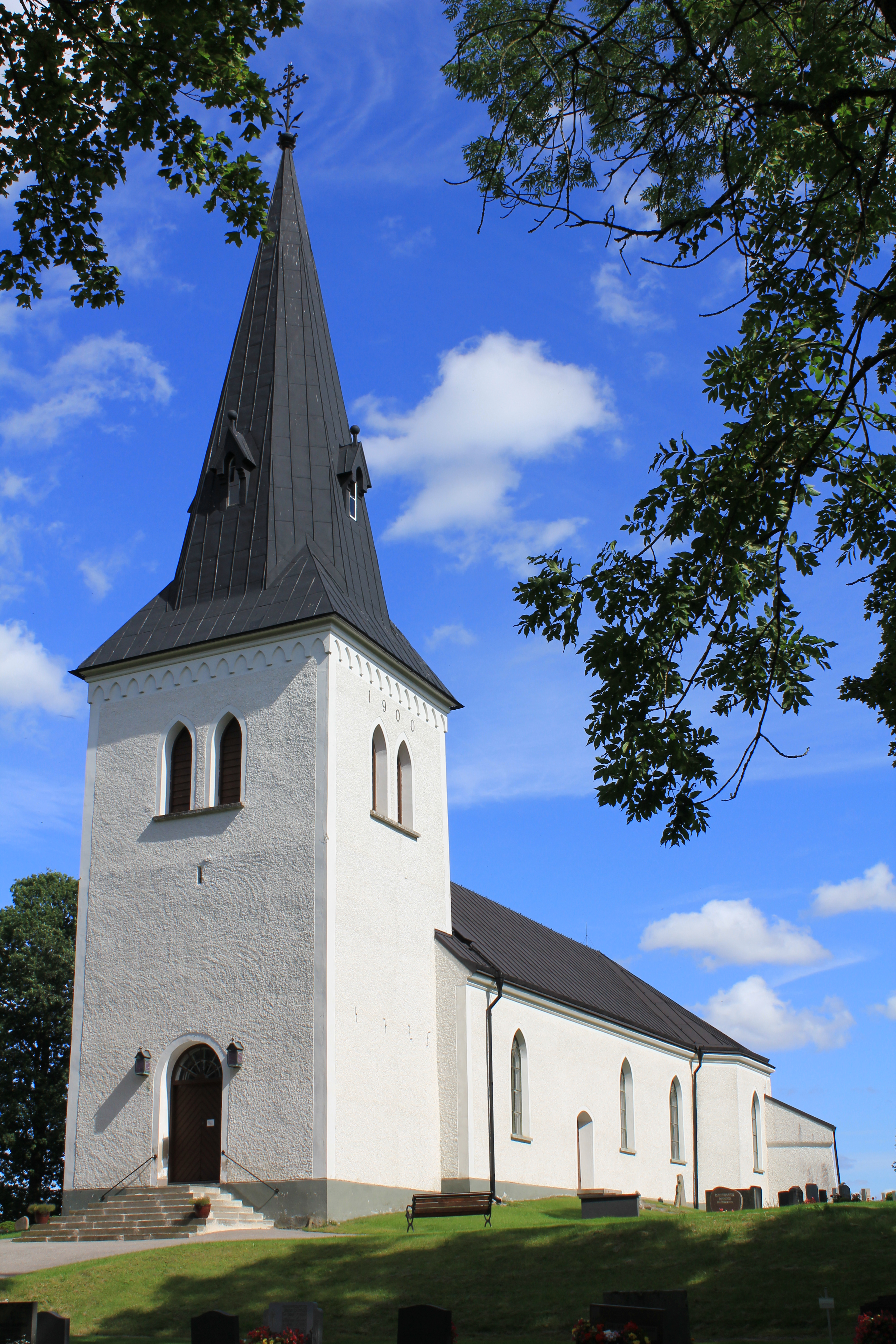 Hjälstad church in Hjälstad Parish Töreboda Municipality, Vadsbo Hundred, former Skaraborg County, the Diocese of Skara, Västergötland, Västra Götaland County, Sweden.